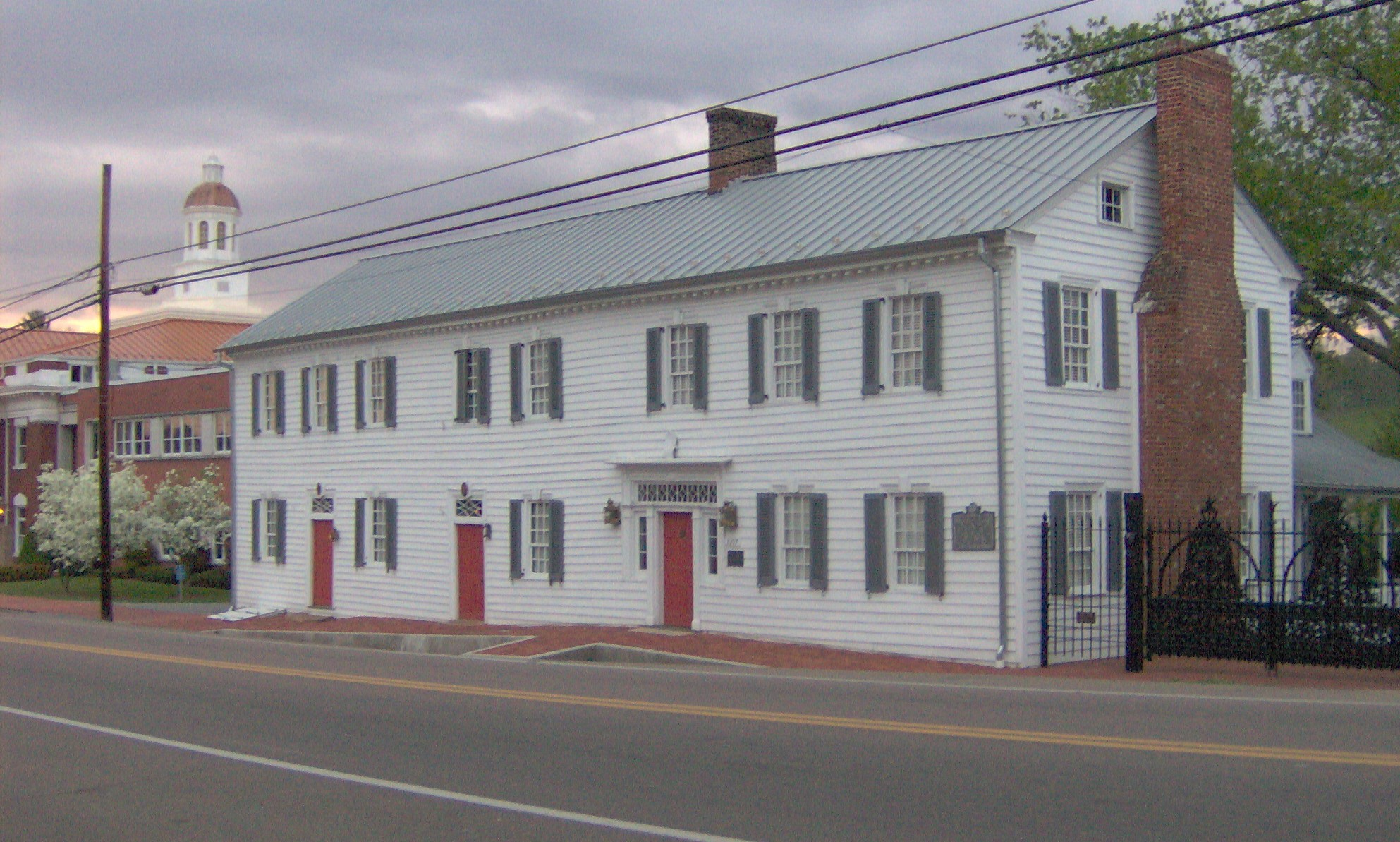 The Deery Inn in Blountville, Tennessee, in the southeastern United States. The inn was built in the late 1785-1801 and operated until the 1930s. Over the years, its guests included U.S. presidents Andrew Jackson, James K. Polk, and Andrew Johnson, Revolutionary War notable Marquis de Lafayette, and future French king Louis Philippe. It was added to the U.S. National Register of Historic Places in 1973.